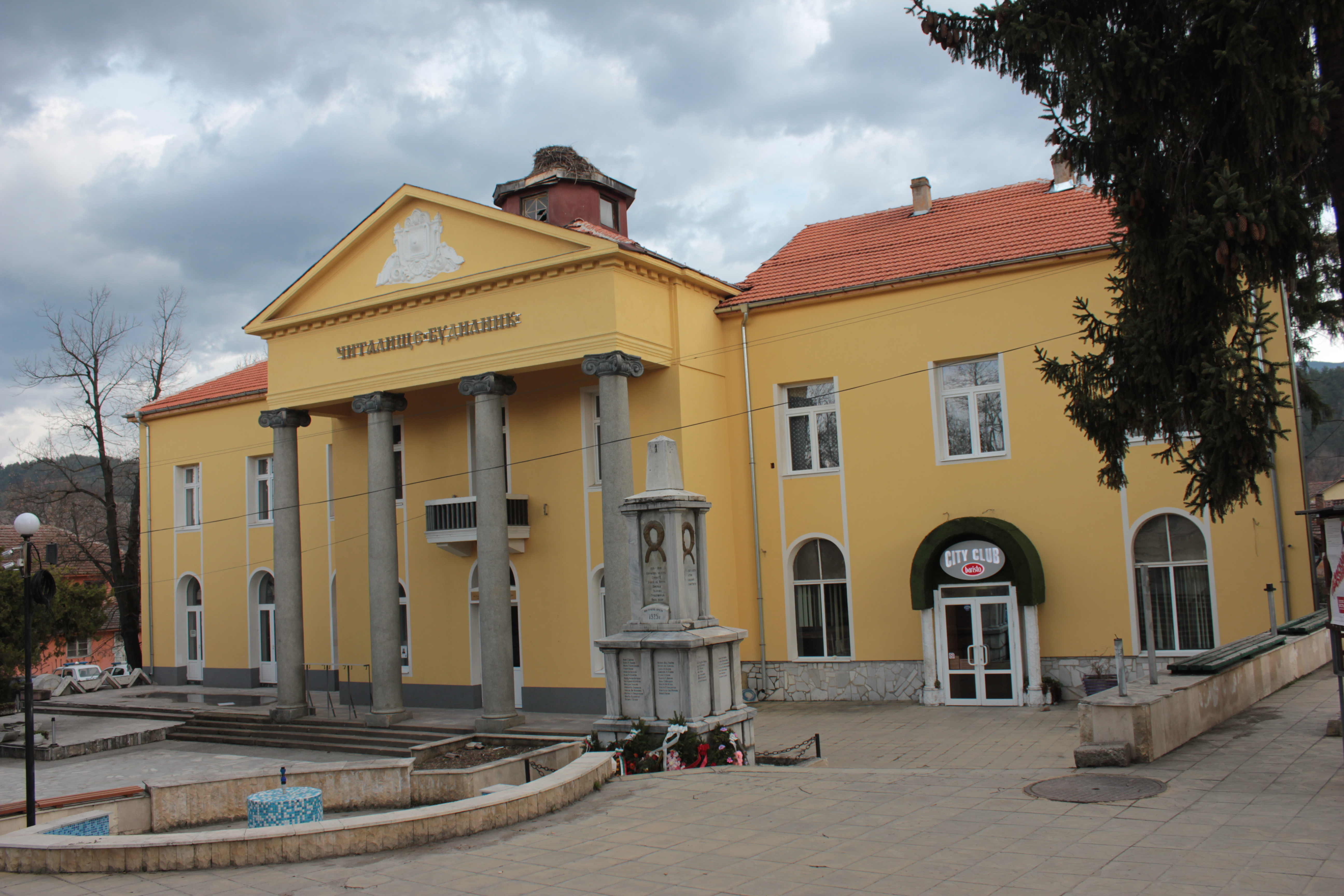 Rakitovo Chitalishte (culture club)